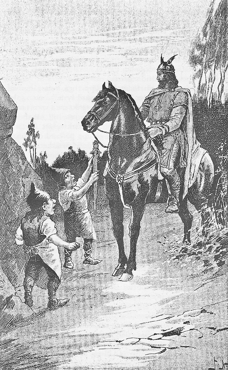 Svafrlami and the Dwarves. Artwork by Jenny Nyström (1854–1946), 1895.